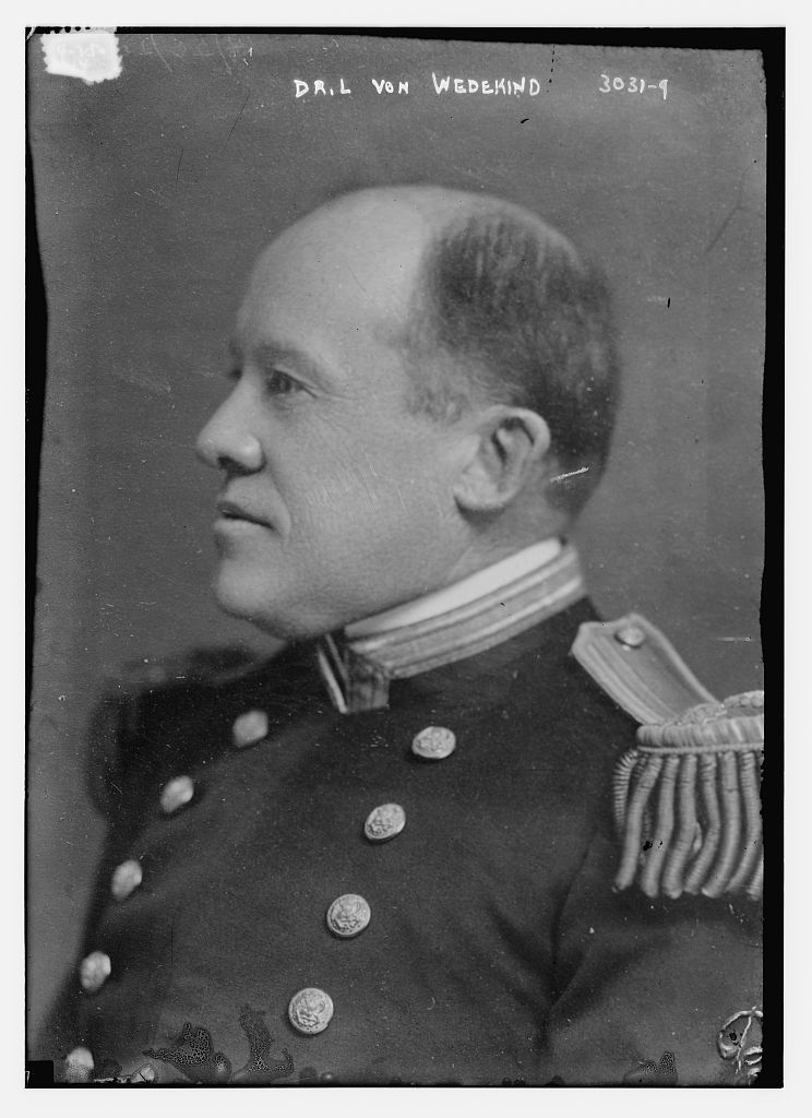 Bain News Service,, publisher. Dr. Luther von Wedekind circa 1915 [between ca. 1910 and ca. 1915] 1 negative : glass ; 5 x 7 in. or smaller. Notes: Title from unverified data provided by the Bain News Service on the negatives or caption cards. Forms part of: George Grantham Bain Collection (Library of Congress). Format: Glass negatives. Repository: Library of Congress, Prints and Photographs Division, Washington, D.C. 20540 USA, General information about the Bain Collection is available at Persistent URL: Call Number: LC-B2- 3031-9